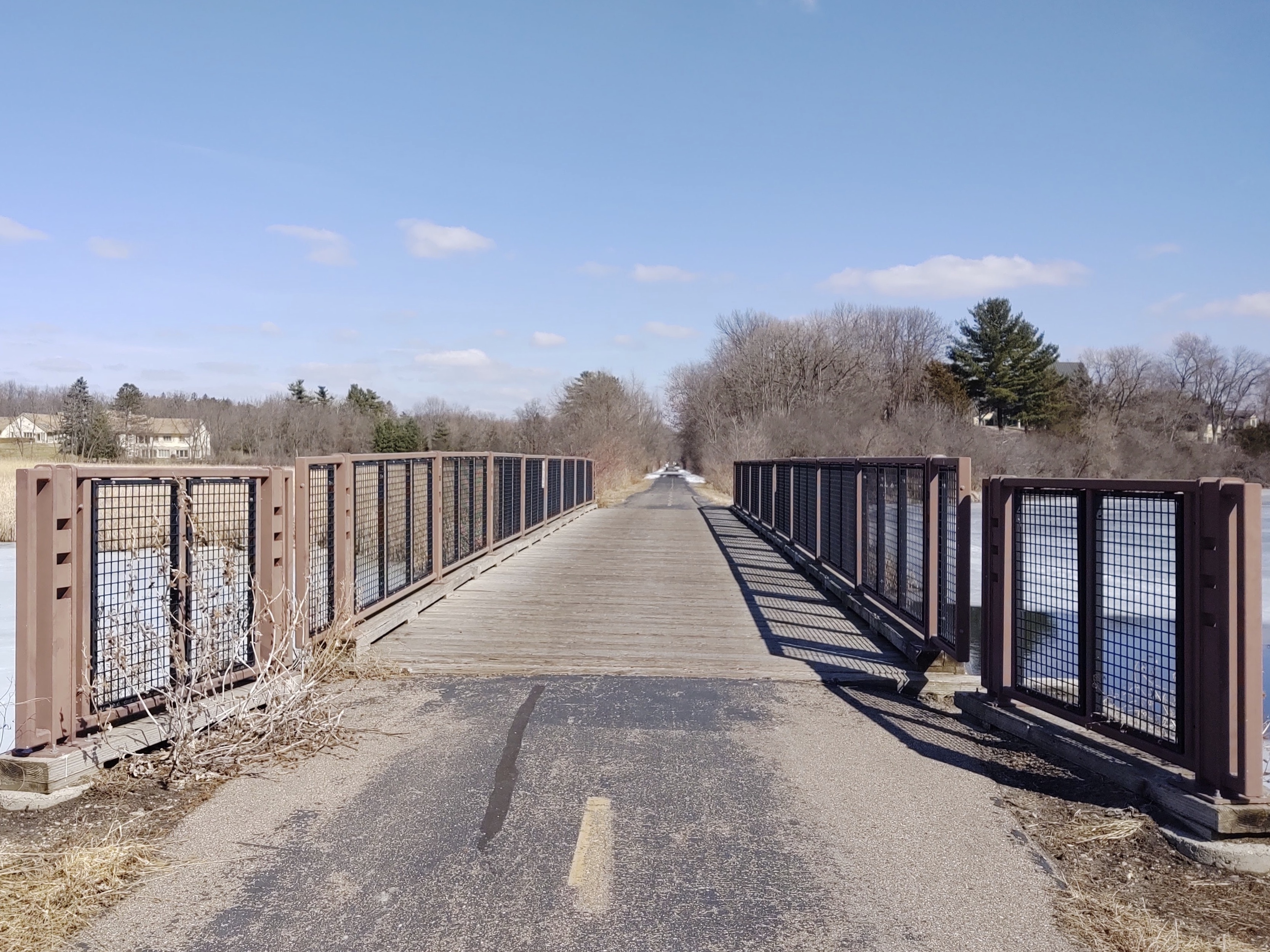 Looking east